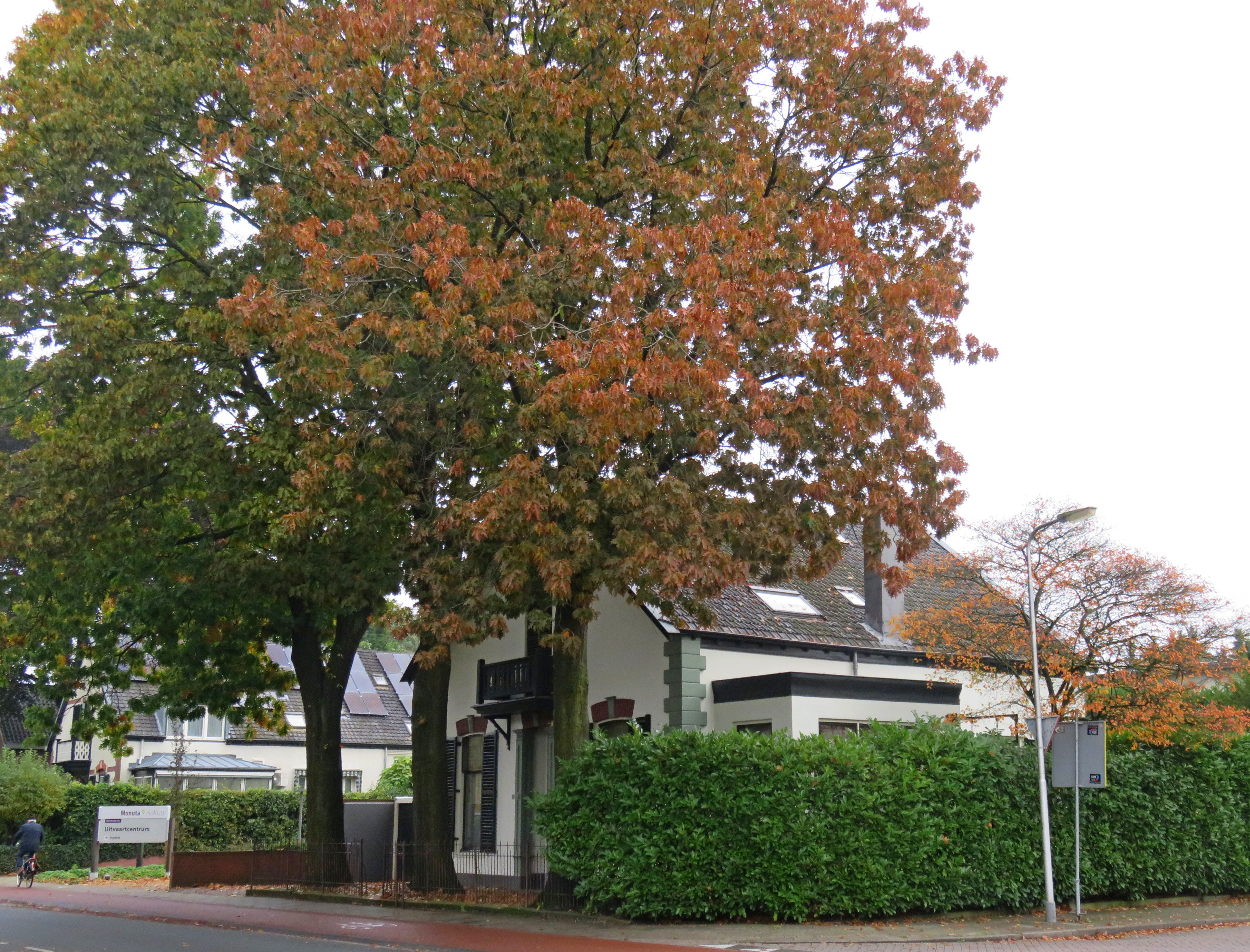 Municipal monument in Bennekom (NL), Edeseweg, huis De Hulst